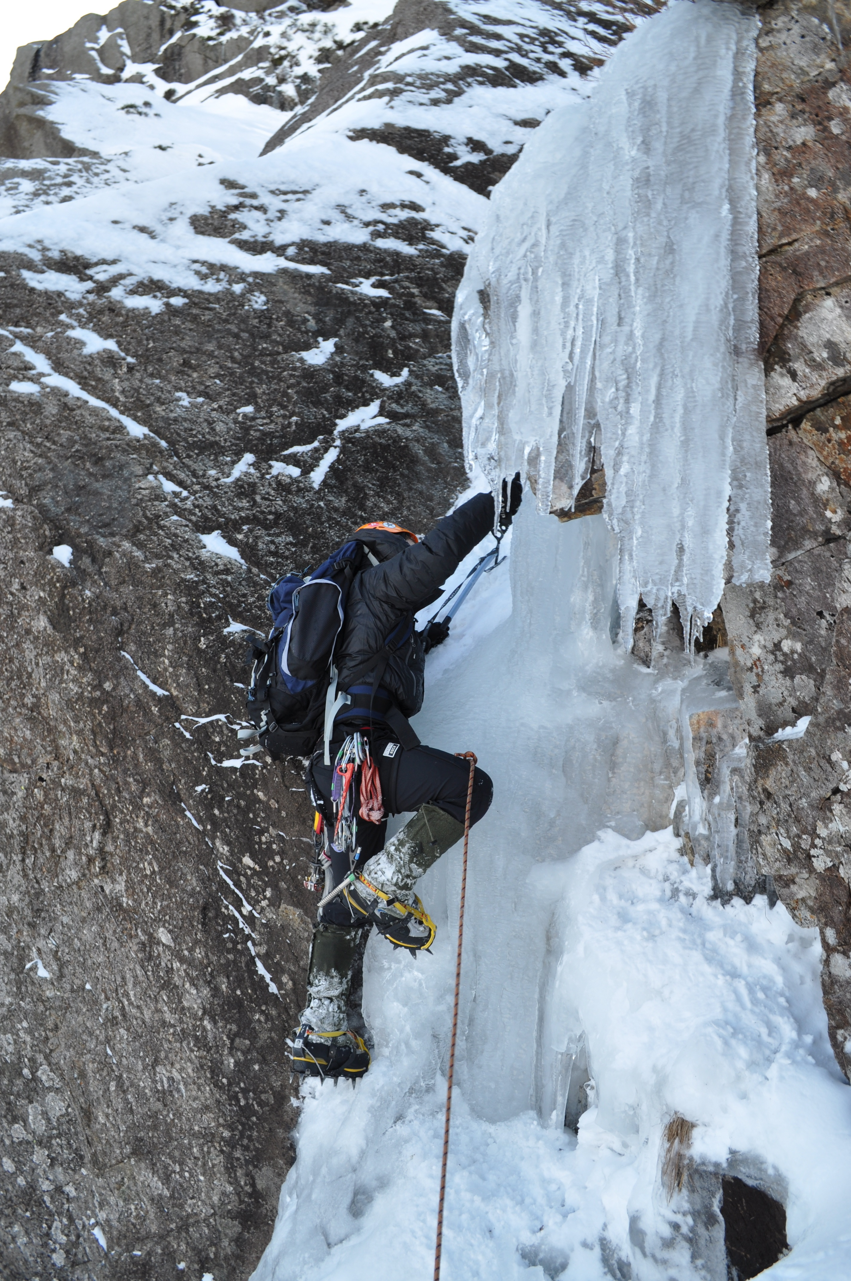 William Groat taking advantage of the great freeze of 2010, Low Water Beck, Coniston, UK.